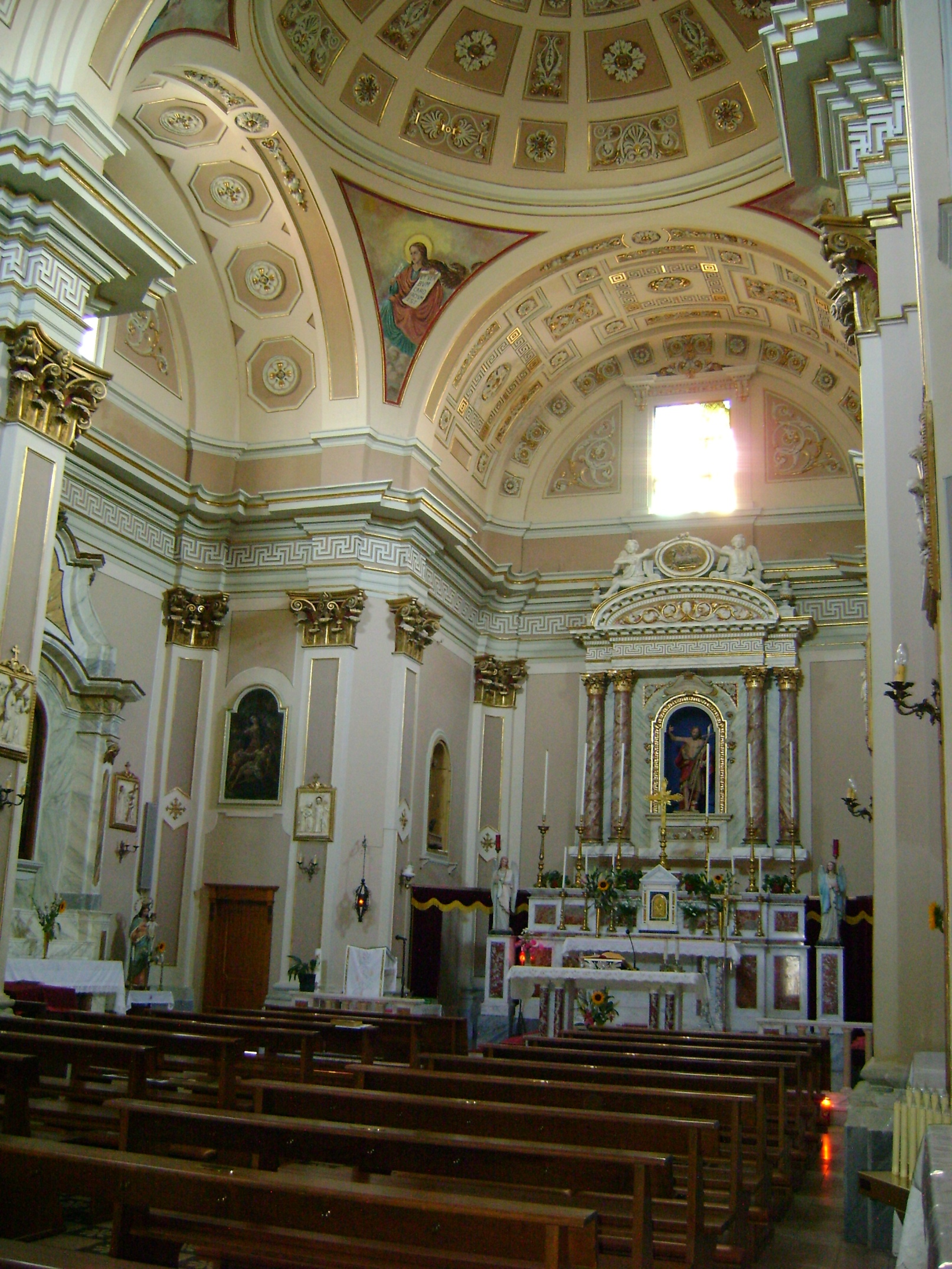 The interior of the church of St. John the Baptist Beheaded, Monteferrante, province of Chieti, Abruzzo